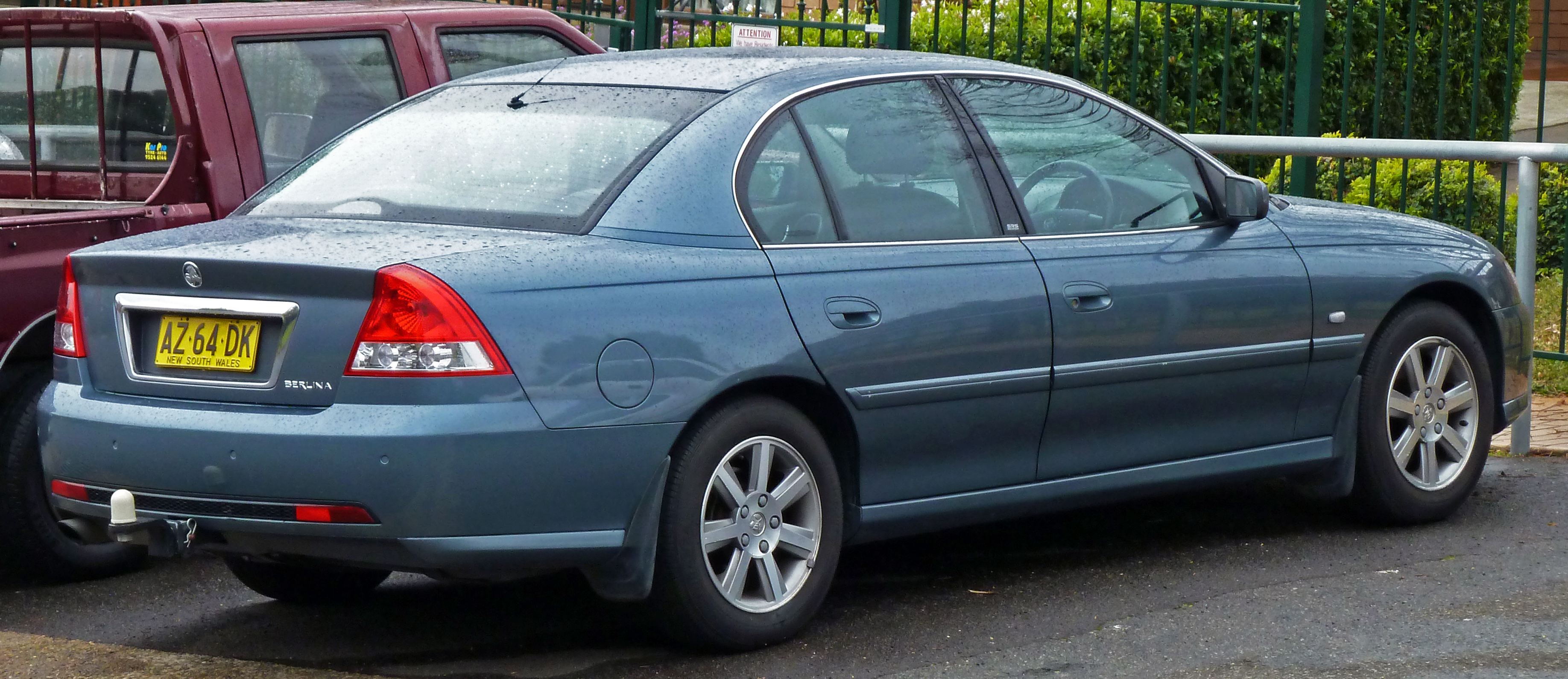 2005 Holden Berlina (VZ) sedan. Photographed in Miranda, New South Wales, Australia.